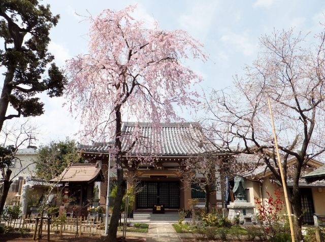 Fukusenji Temple at Nishitokyo city